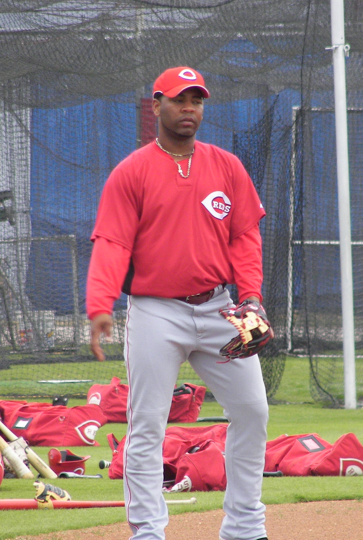 Cincinnati Reds infielder Edwin Encarnación during a Spring Training workout outside Ed Smith Stadium in Sarasota, Florida.